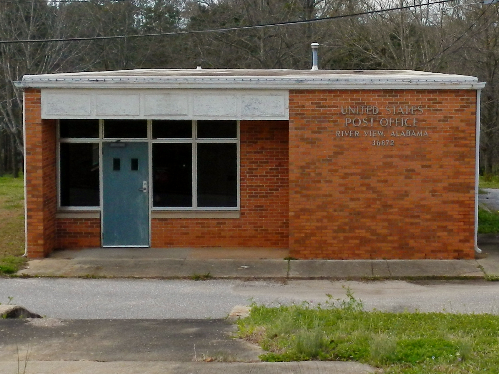 This is a photograph of the now-defunct post office in River View, Alabama.